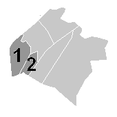 Locators of Venlo